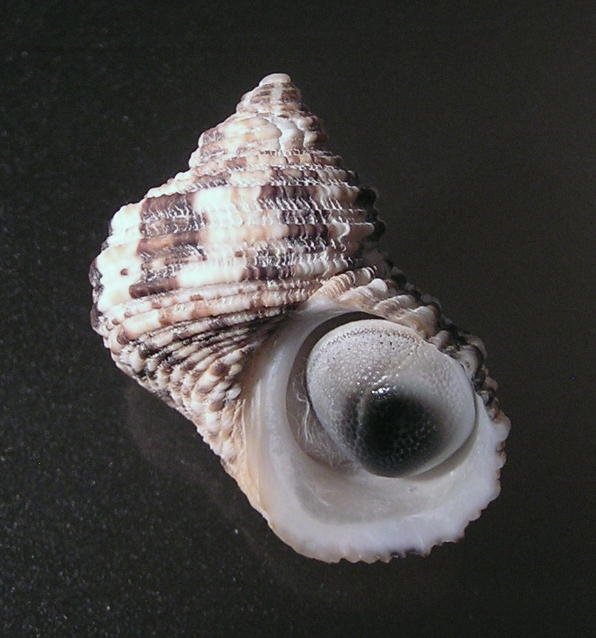 Turbo ticaonicus Reeve, 1848, a turbid snail from the family Turbinidae; Singapore